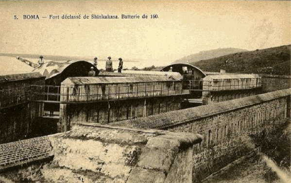 Fort de Shinkakasa in Boma, Democratic Republic of the Congo